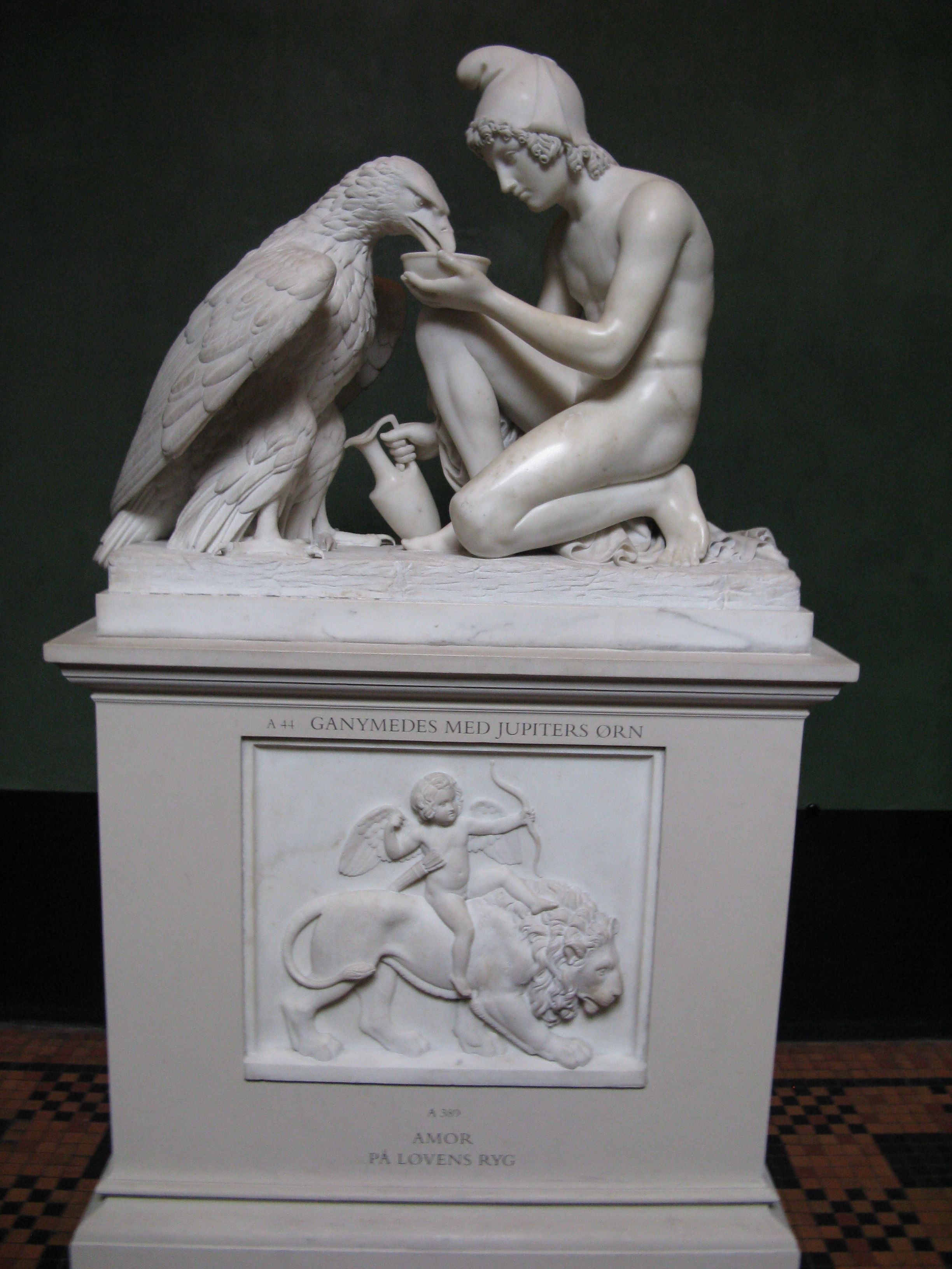 Ganymede and the eagle by Bertel Thorvaldsen at Thorvaldsen Museum in Copenhagen.